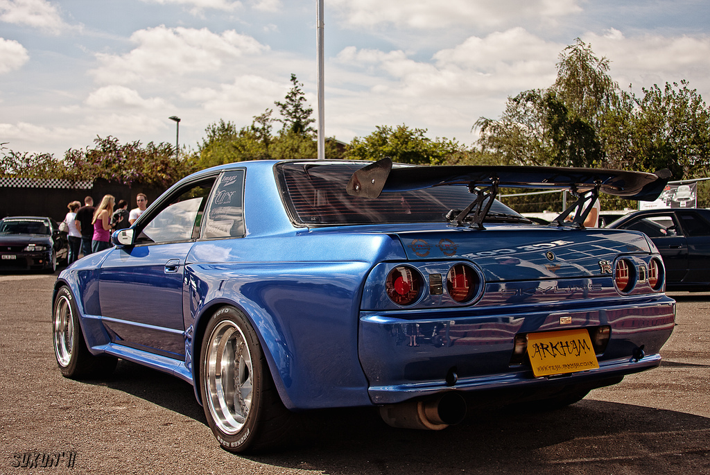 ARKHAM at Ace Cafe London 2011